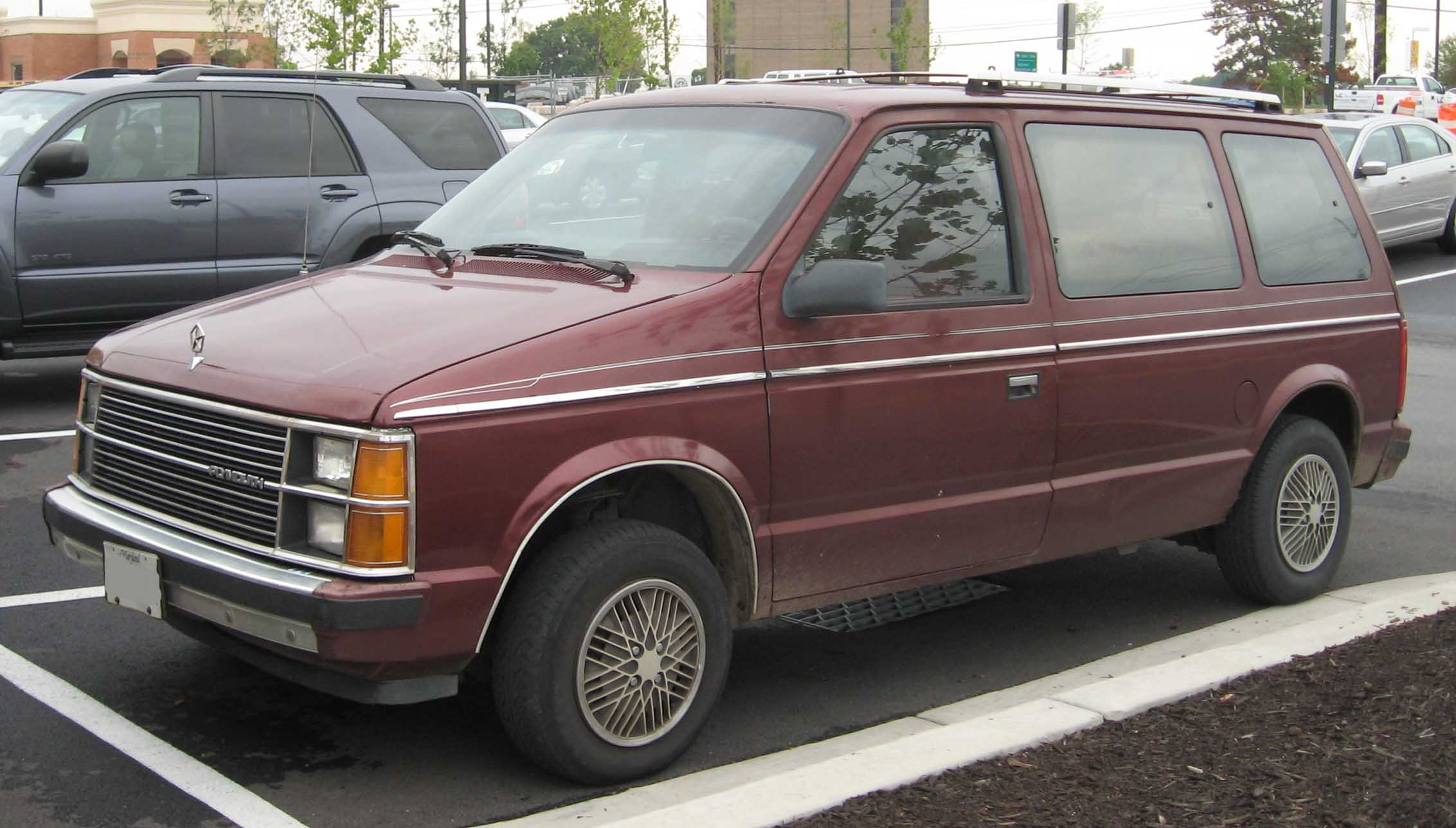 1984-1986 Plymouth Voyager photographed in College Park, Maryland, USA.